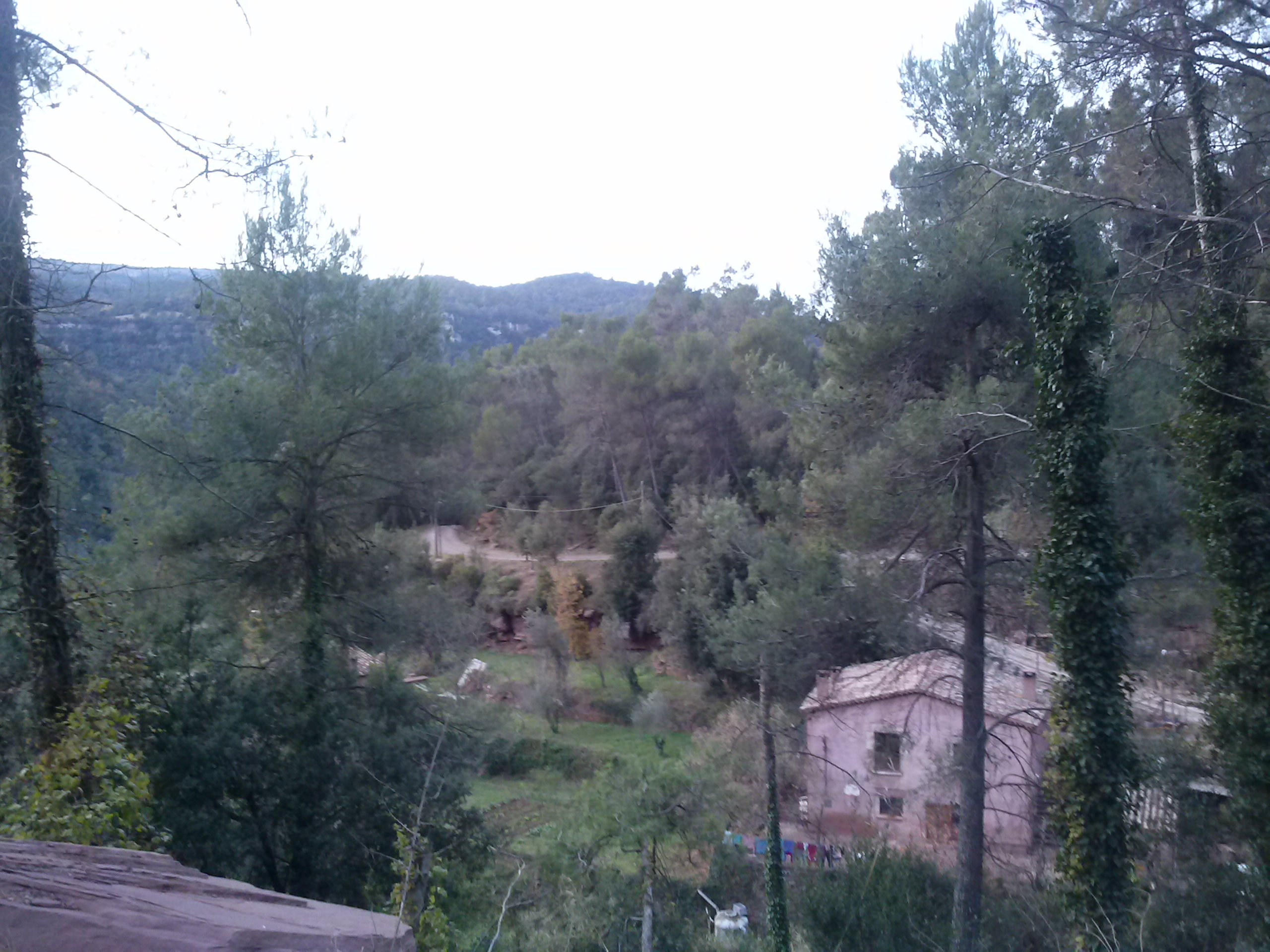 Can Xesc, Tagamanent (Catalonia)